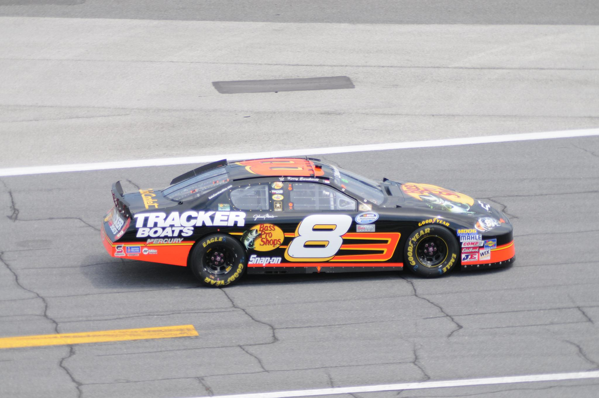 Nationwide race at Daytona: Martin Truex junior (2008)